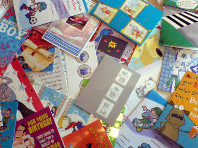 self made